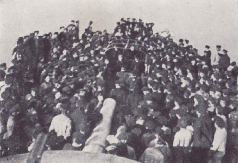 Surrender of the sailors on "St. Georg" 3 February 1918 in the morning; see discussion page.